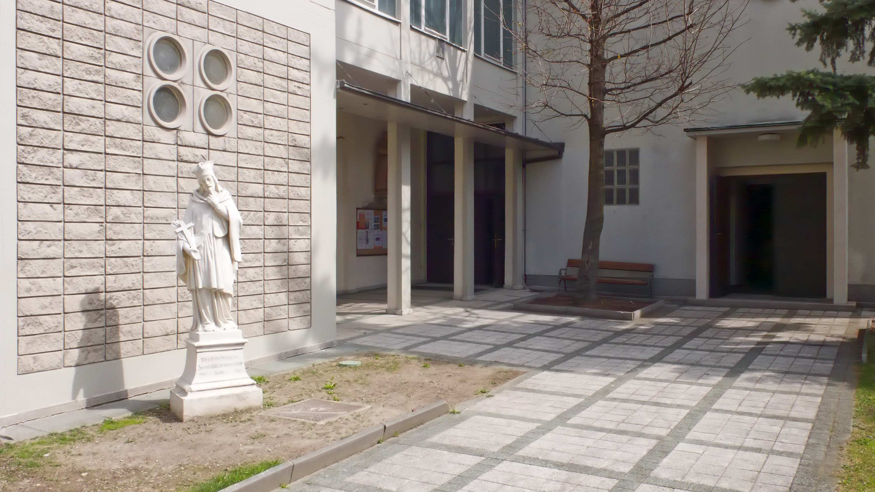 Church Unter St. Veiter Pfarrkirche in Vienna Hietzing